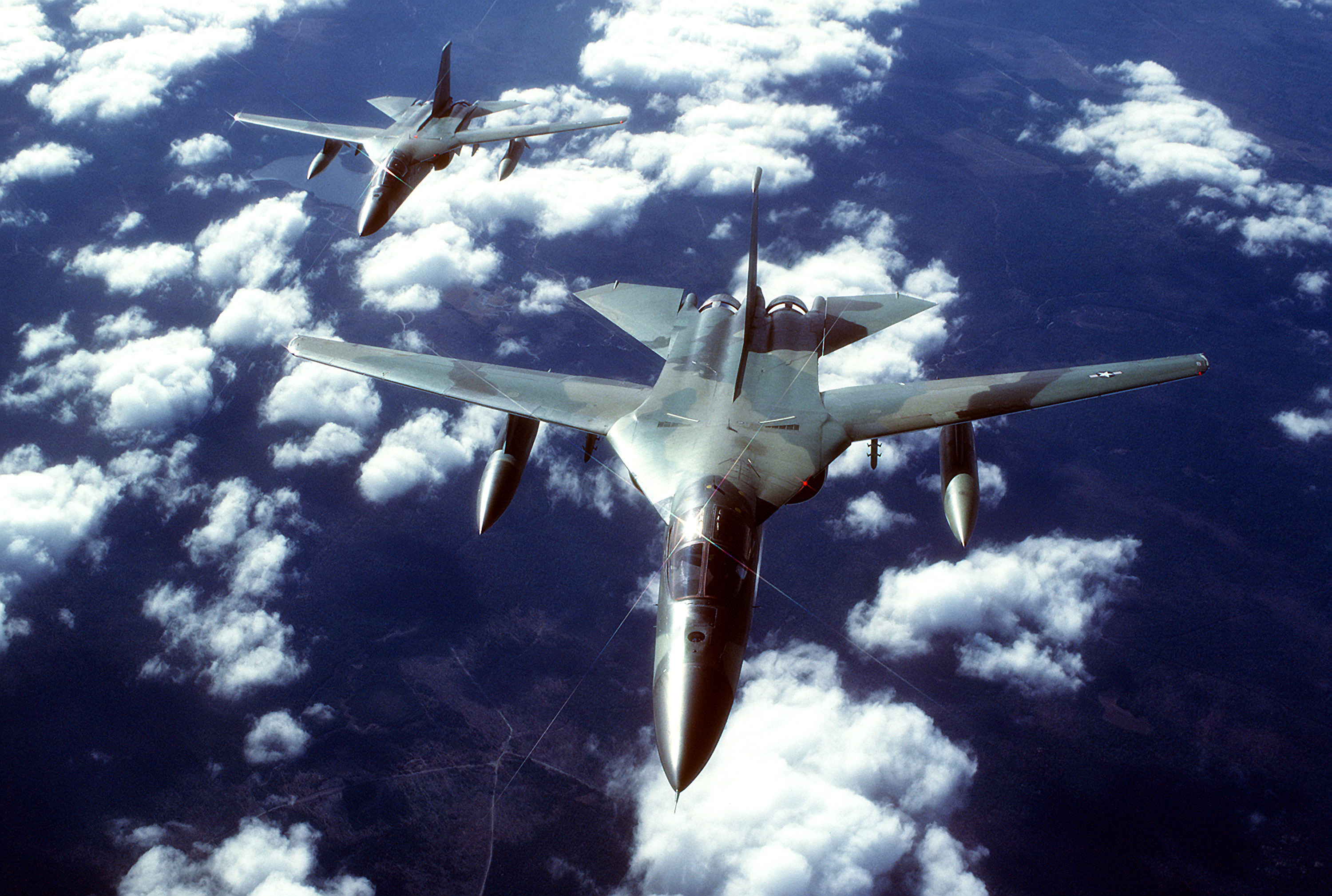 An air-to-air front overhead view of two FB-111 aircraft in formation.